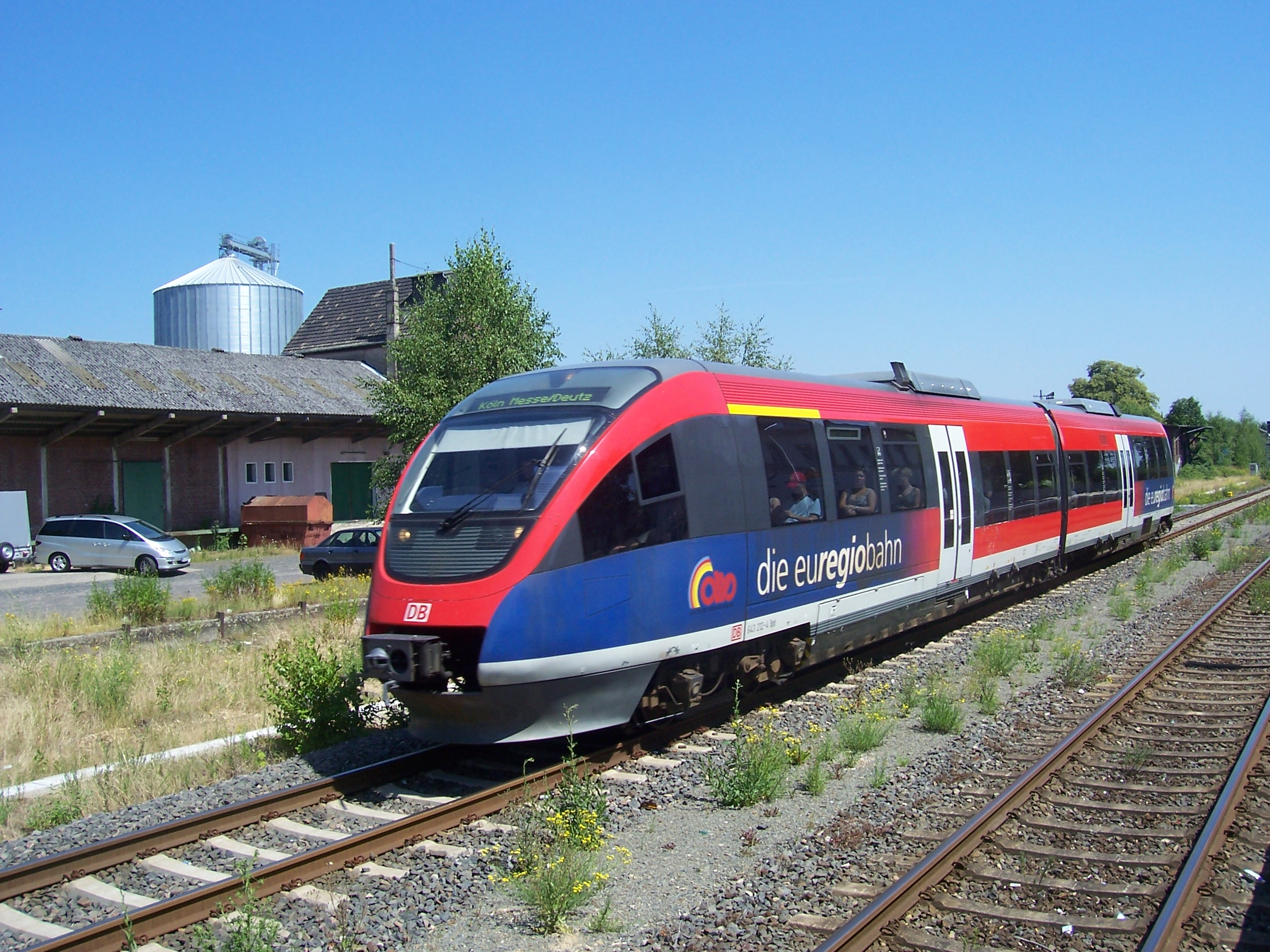 DB Class 643 in Kapellen-Wevelinghoven.